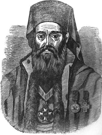 Theodoritos, bishop of Bresthena